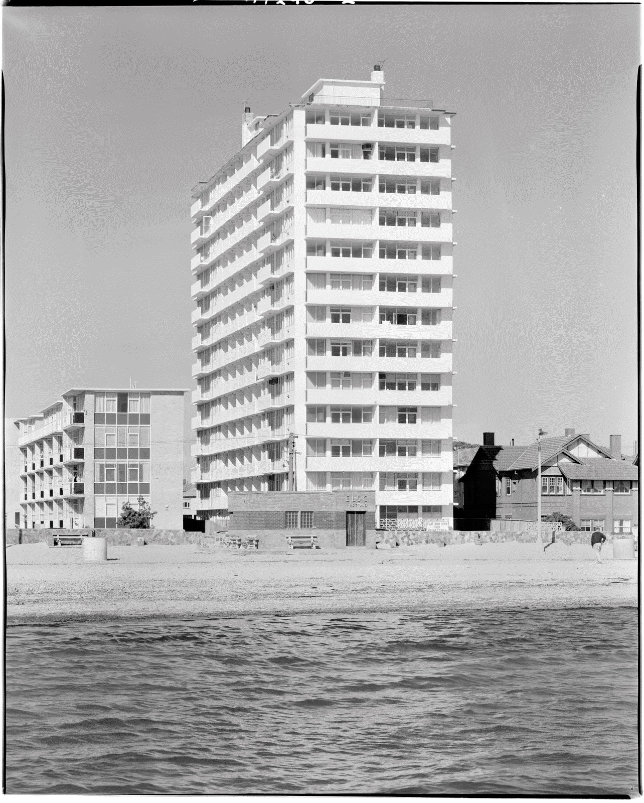 Edgewater Towers St Kilda designed by Mordechai Benshemesh, photographed by Lyle Fowler in Sept 1962